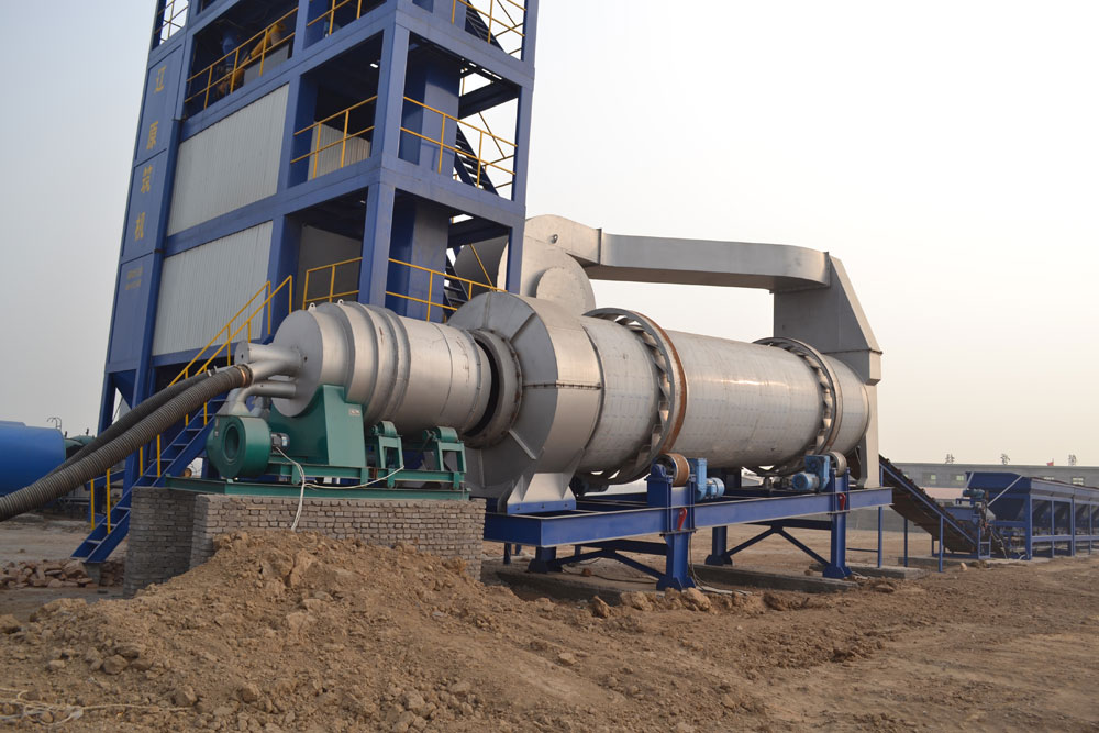 Drying drum at work